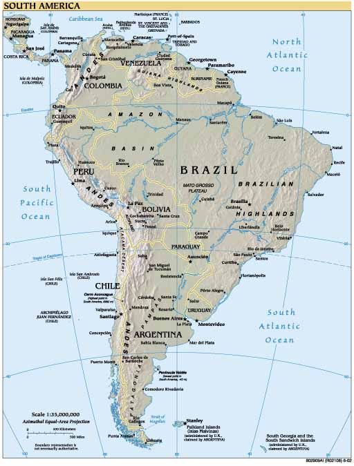 Notice the major landforms including the Andes Mts. as well as the Amazon River. Billede:Sydamerika.jpg